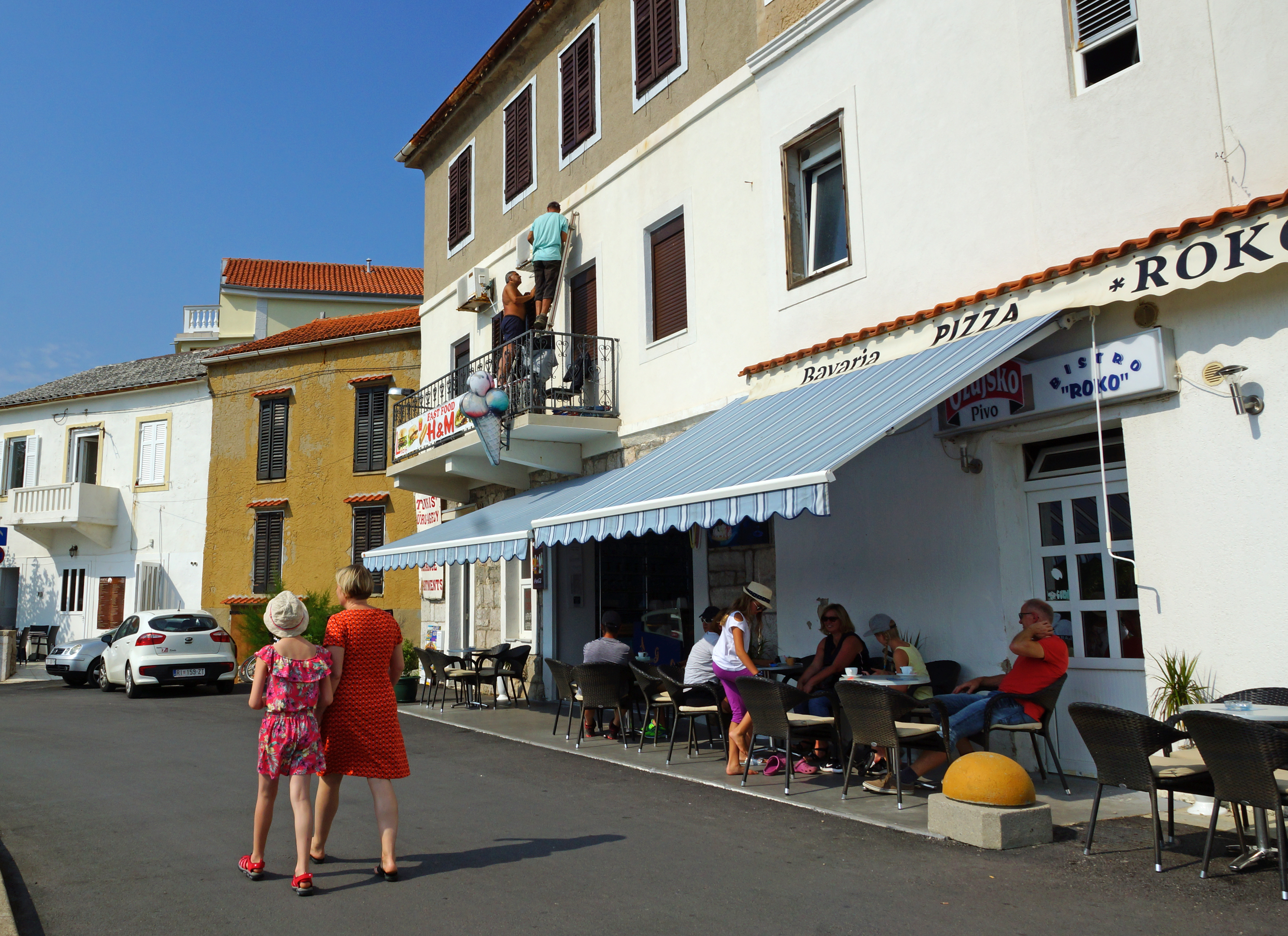 Buildings in the harbor.